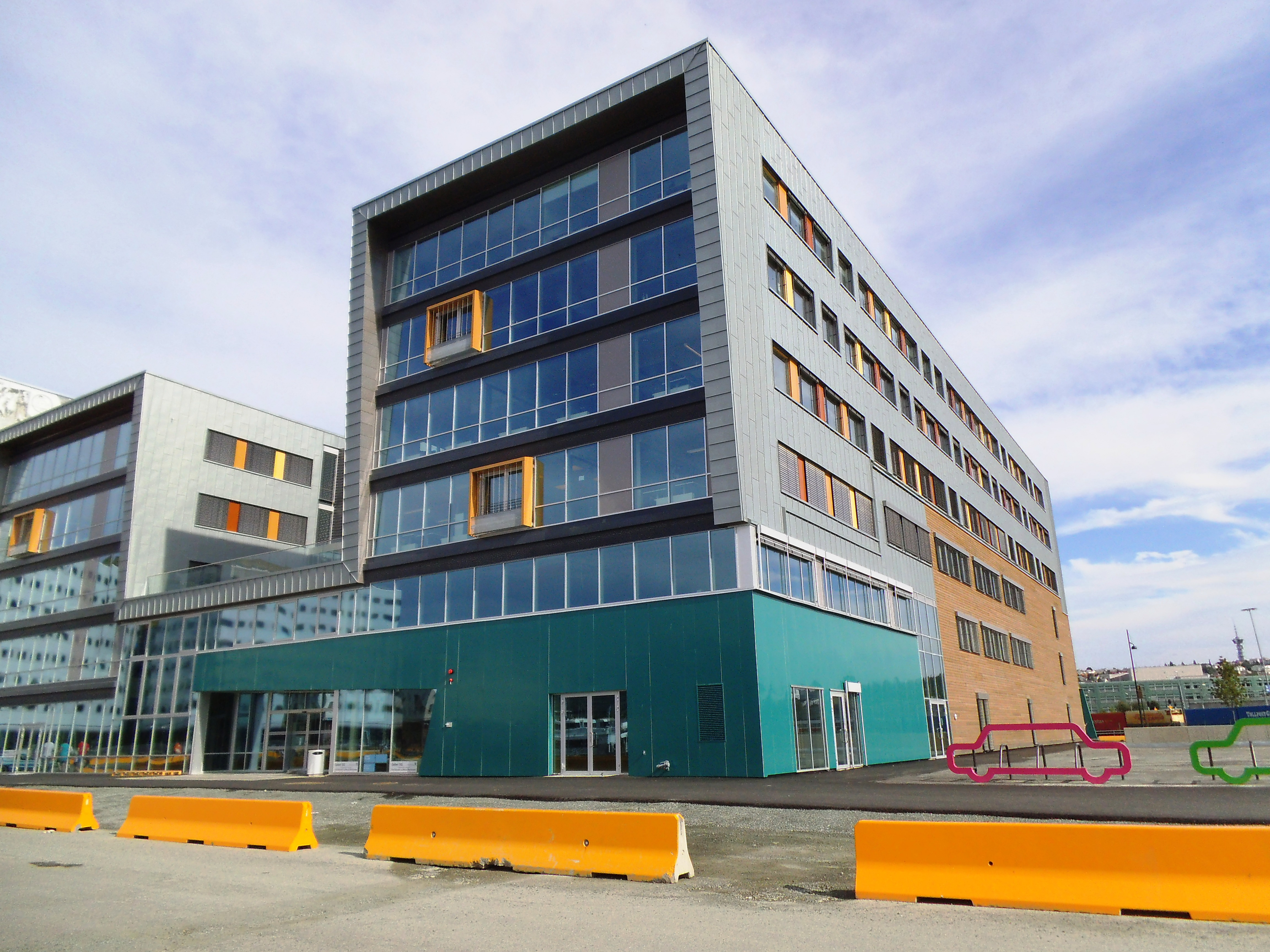 The Norwegian Environment Agency in Brattøra, Trondheim. Right by Rockheim.